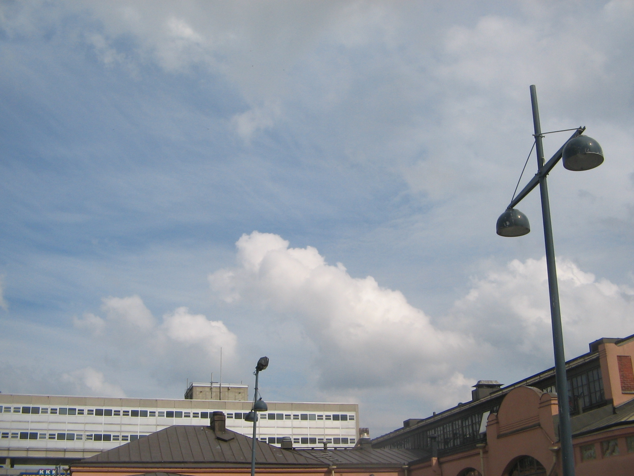 Weather/Clouds/Cumulus congestus-cloud, slant (wind does that) small tower-like.